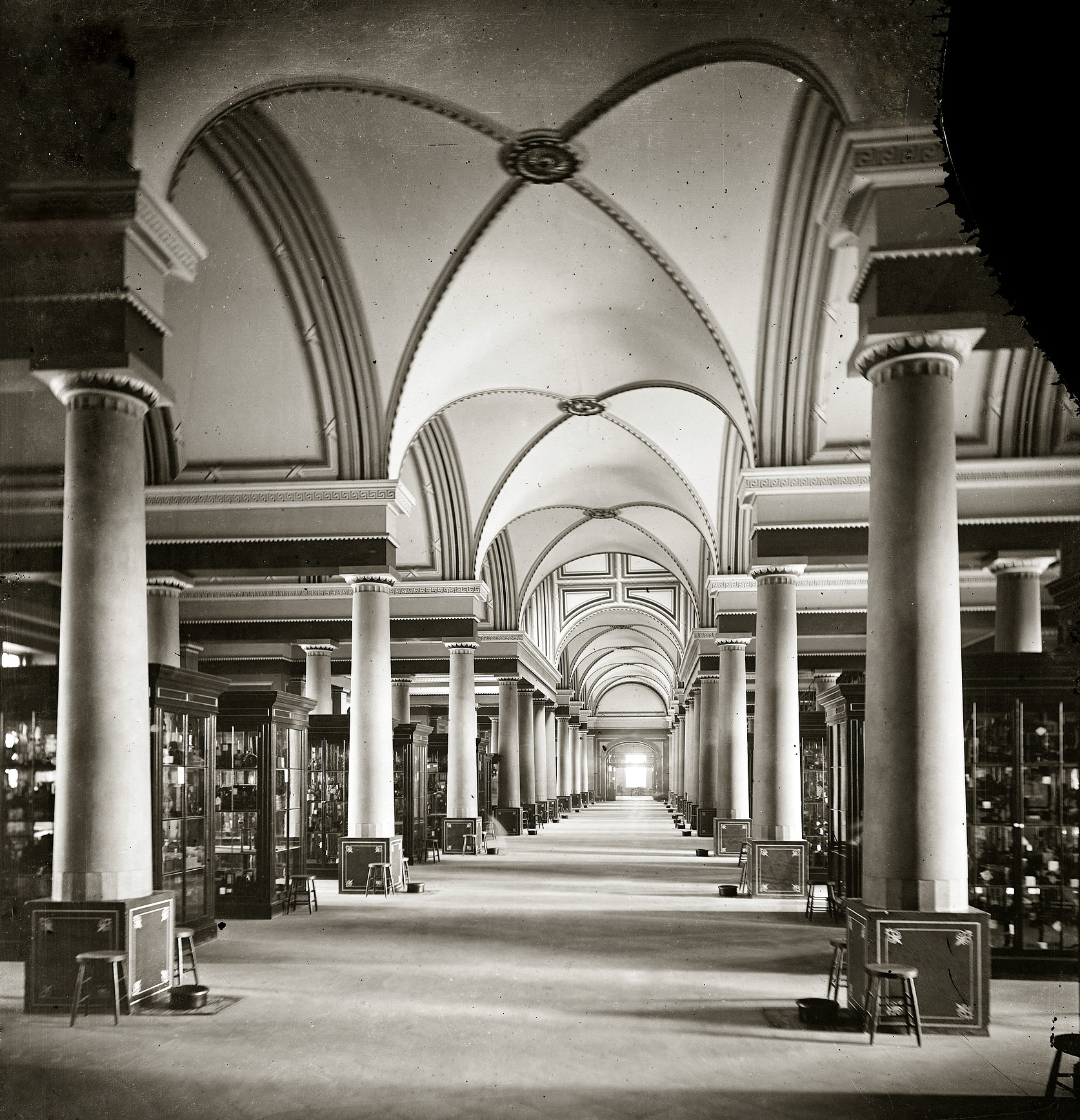 Model room located inside the Old Patent Office Building in Washington, D.C. The building, a National Historic Landmark located in the Penn Quarter neighborhood, was designed by Robert Mills and now houses the Smithsonian's National Portrait Gallery and American Art Museum.